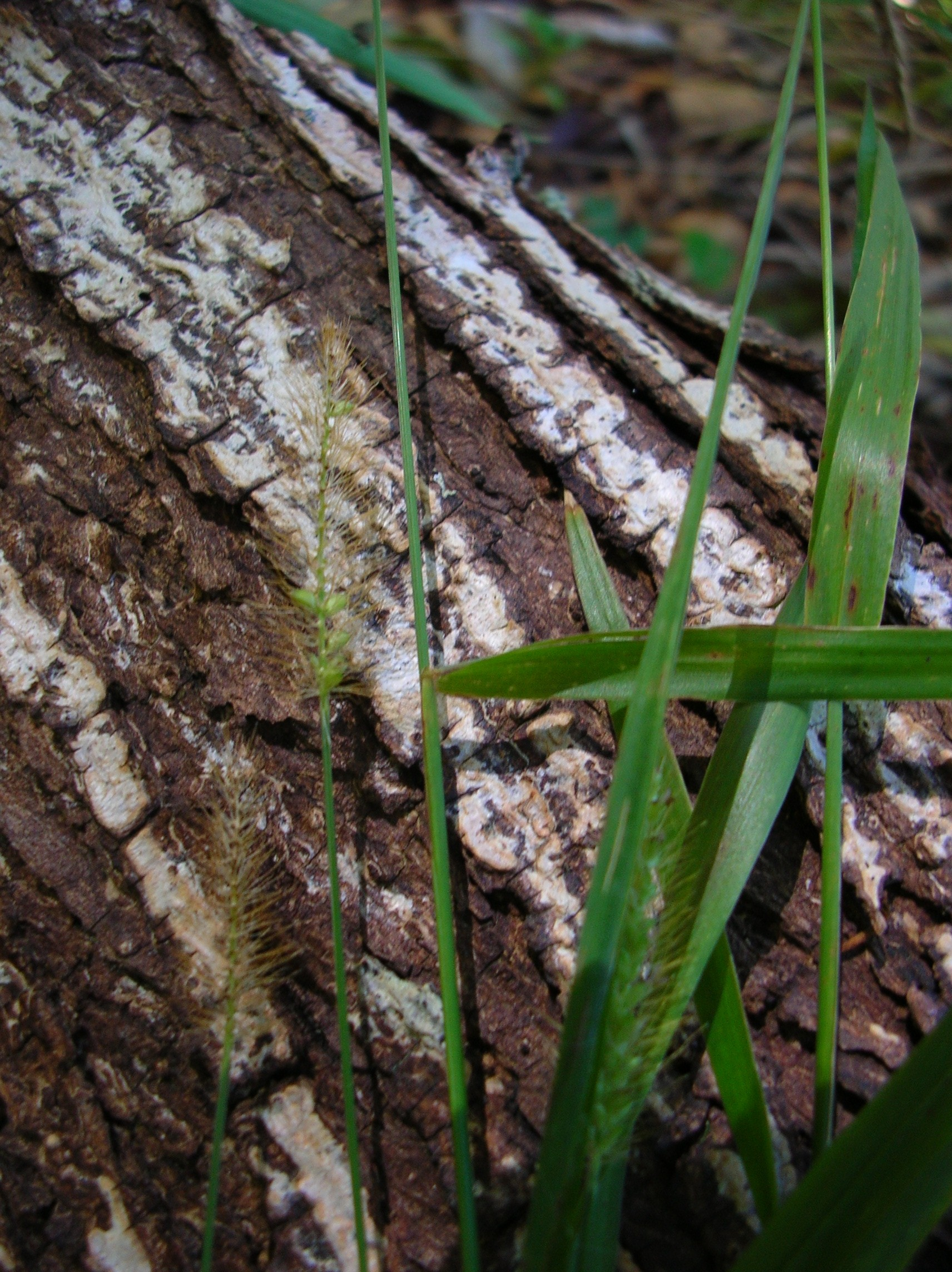 Setaria parviflora (seedhead). Location: Maui, Makawao Forest Reserve